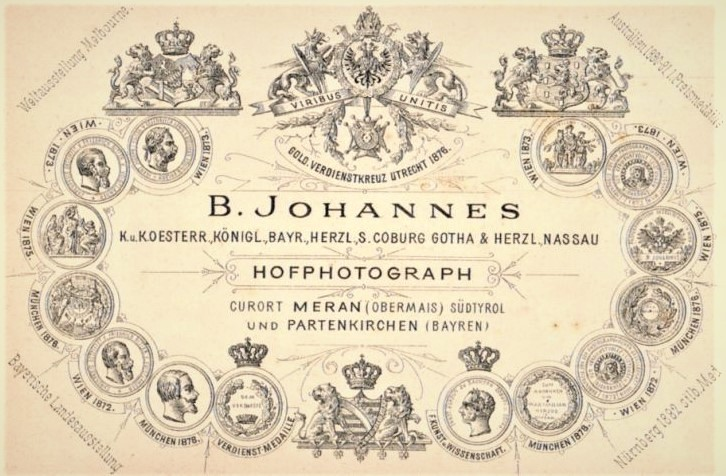 Back of a Johannes Photograph from 1890 ca